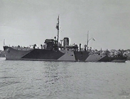 Australian War Memorial image 305827 HMIS Bombay in Sydney Harbour in 1942, probably shortly after she was commissioned in April.